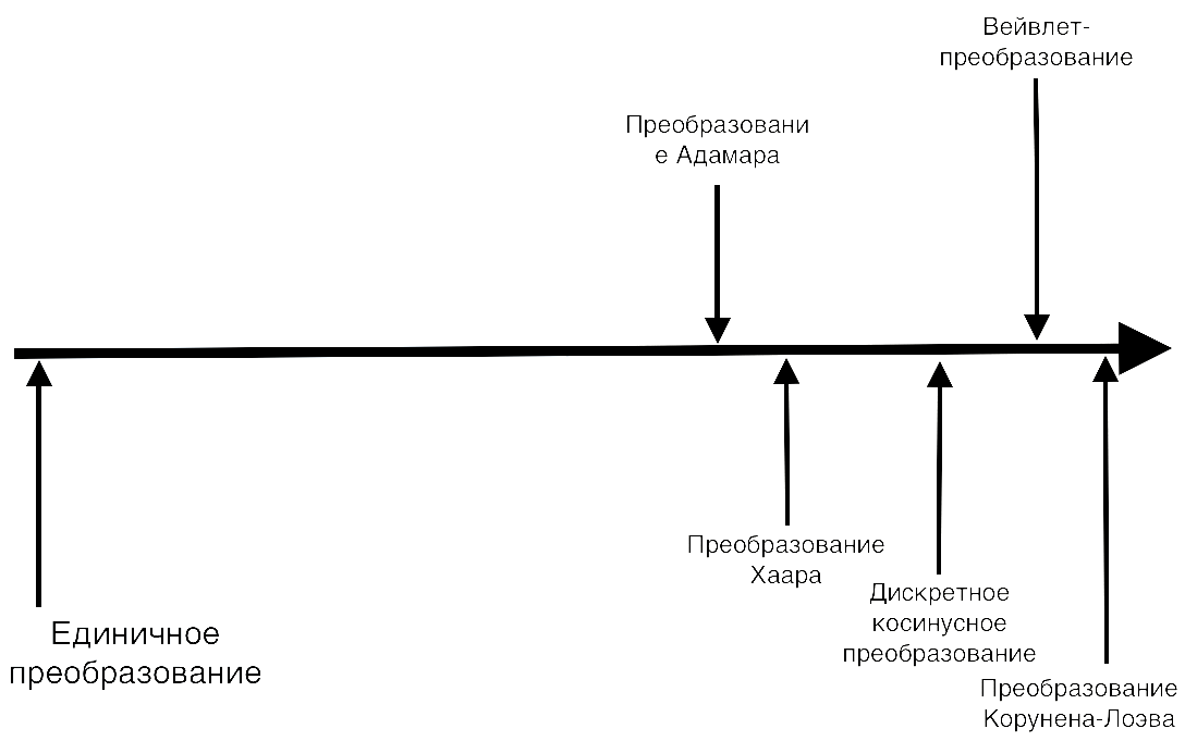 Различные преобразования, упорядоченные по достигаемому выигрышу от кодирования